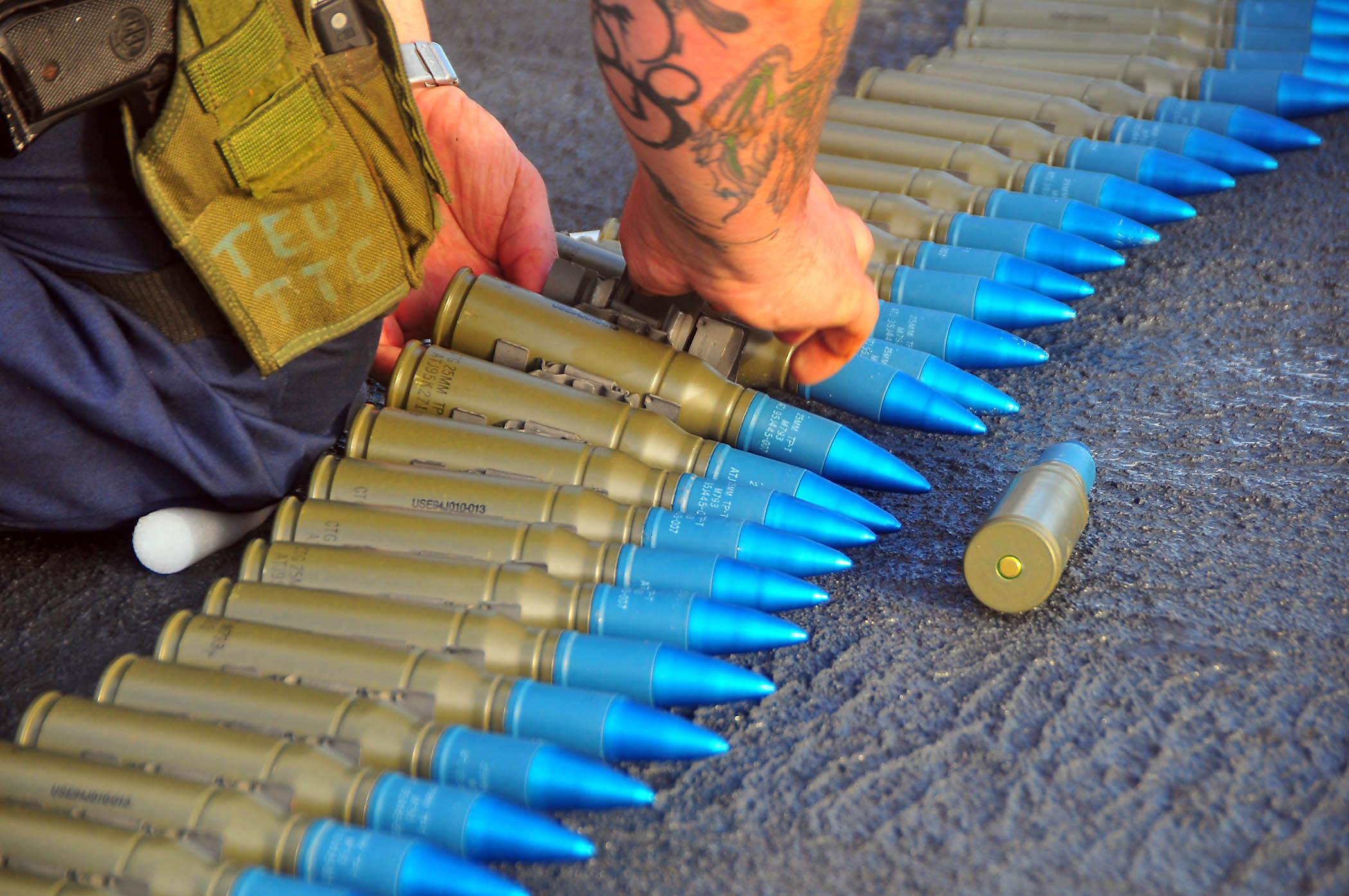 PACIFIC OCEAN (Jan. 29, 2009) Gunner's Mate 2nd Class Nicholas Brassard inspects rounds for the MK-38 25mm machine gun system aboard the -missile cruiser USS Lake Champlain (CG 57) prior to a live-fire exercise. Lake Champlain is part of the Boxer Expeditionary Strike Group/13th Marine Expeditionary Unit and is on a scheduled deployment to the western Pacific supporting global maritime security. (U.S. Navy photo by Mass Communication Specialist 2nd Class Daniel Barker/Released)